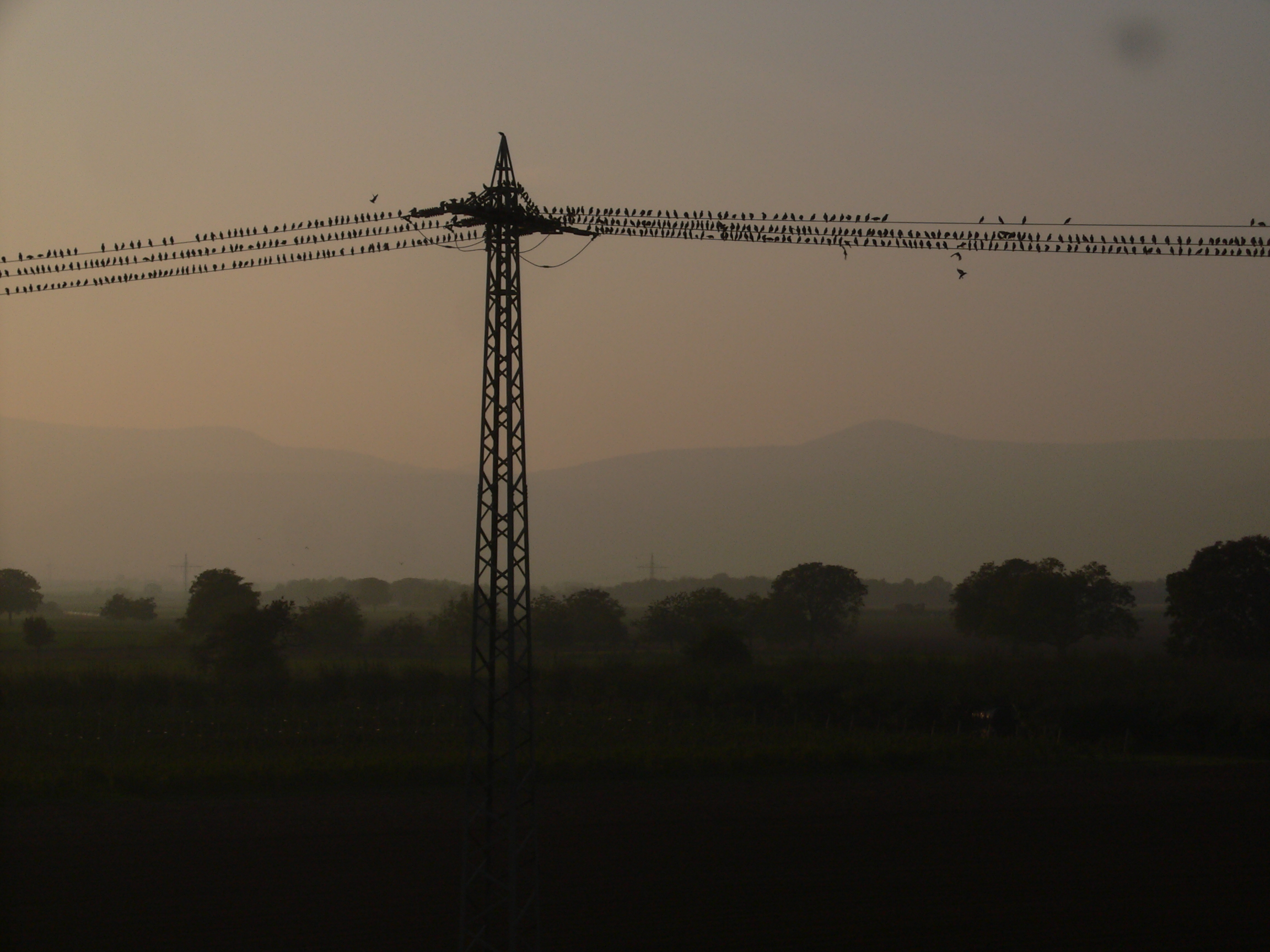 Haßloch (Pfalz), Germany – Migratory birds (persumably Common Starling) on a high-voltage power line, in the background the Haardt can be seen